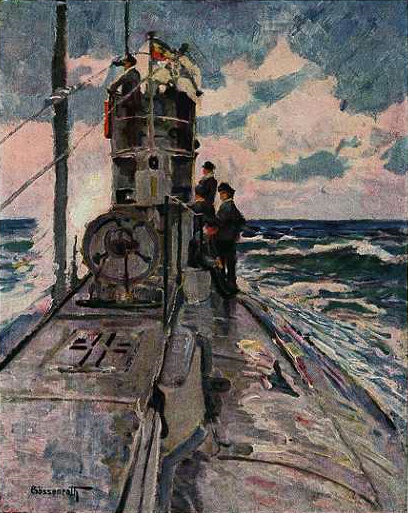 from a series of U-Boat paintings